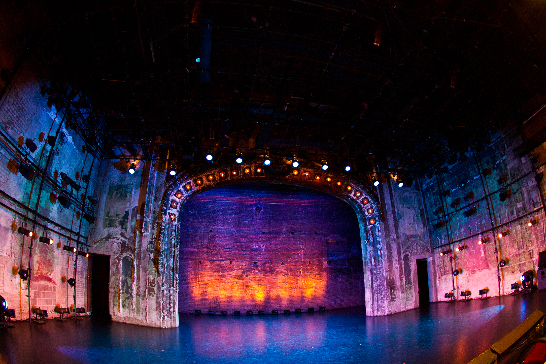 Southern Theater — Minnesota Fringe Festival 4865602088 o